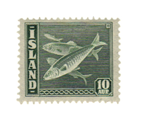 Postage stamp, Iceland, 1940: Herring fisheries.